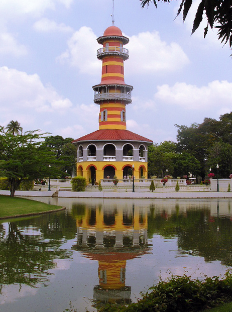 Withun thasana tower, Bang Pa In Palace